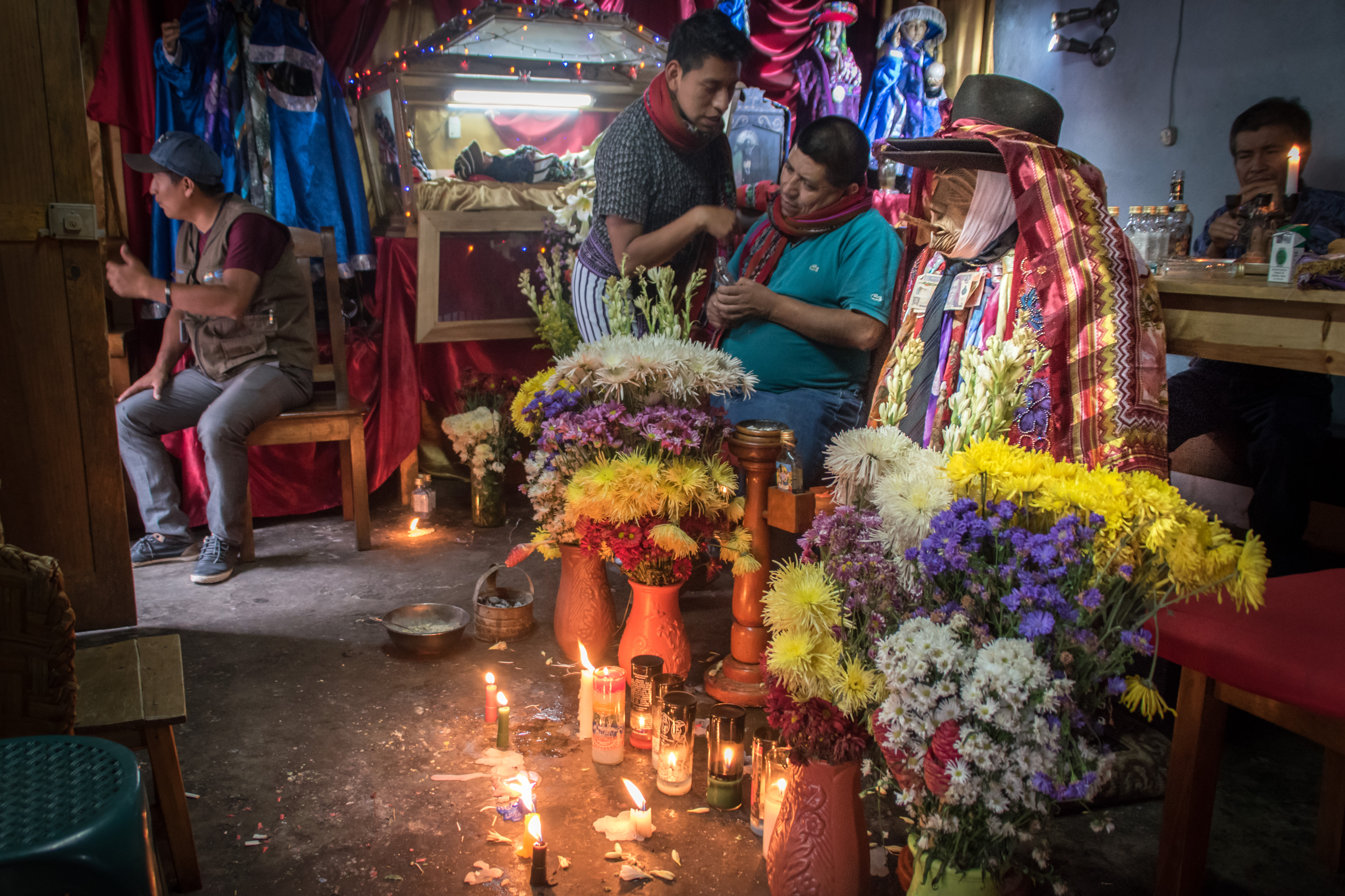 Wonderful stories rank around this Mayan deity. Believers offer tobacco and alcohol in exchange of help. When the Spanish arrived in Guatemala in 1524 and imposed Christianism, Maximón was hidden by moving him from one private house to the next. A Jesus figure was kept in the same room so that the family could pretend they adhered to Christianity. In Santiago, a brotherhood (cofradía) of about a dozen men and women look after the deity. The women change and wash his clothes every two weeks; the men guard him and manage visitors. Maximón wears many ties as a sign of respect. This symbolism is also found in the local Christian churches, but Jesus and the Christian saints wear less ties. The glass box in the picture contains Mayan figures while near the wall behind the camera there are Jesus figures and Christian symbols. Visiting Maximón is a sensual and intriguing experience.